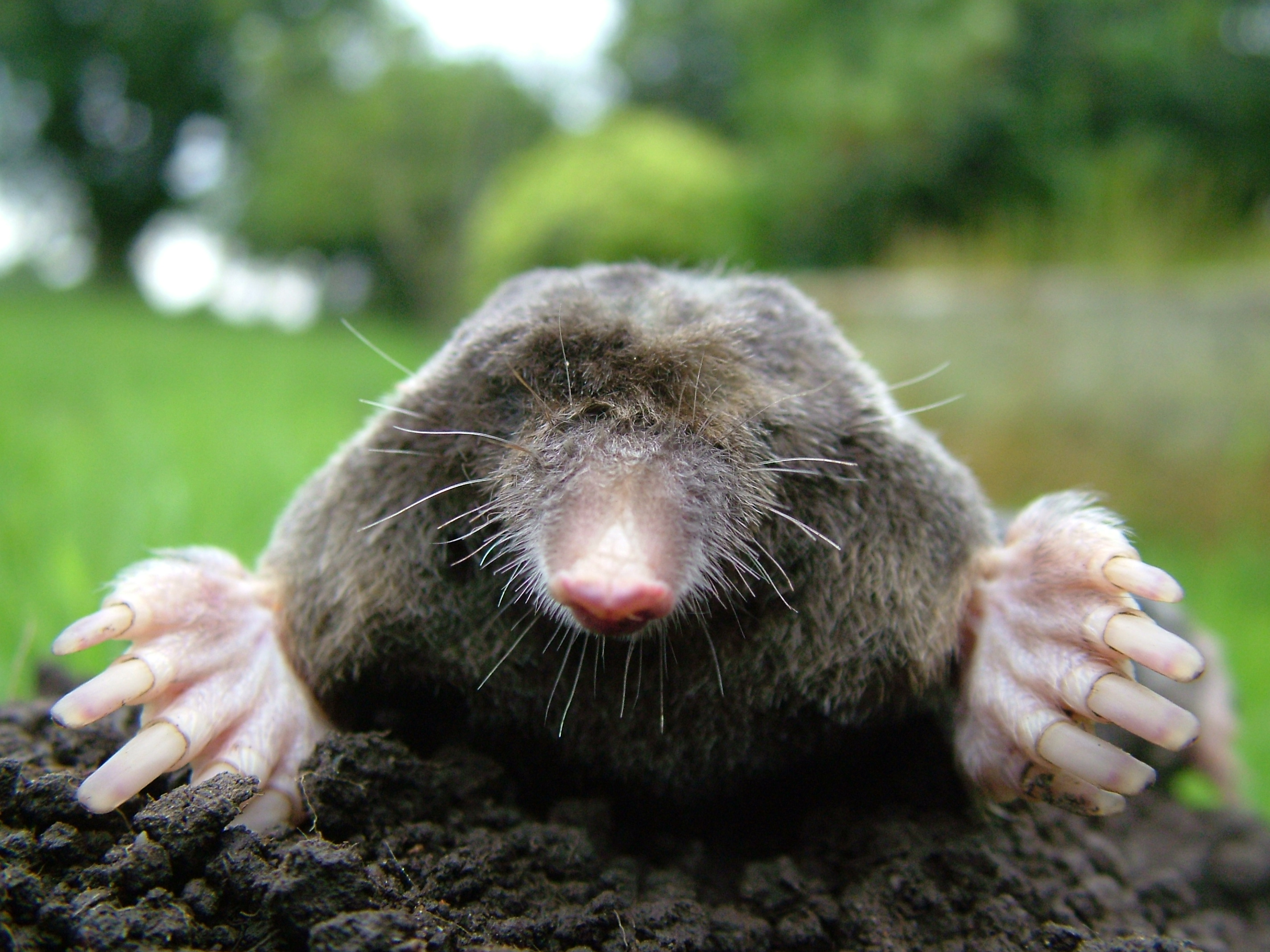 Close-up of mole